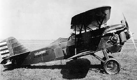 Curtiss P-2 Hawk side view with the original turbo-supercharger. Alternate designation was XP-431. (U.S. Air Force photo)